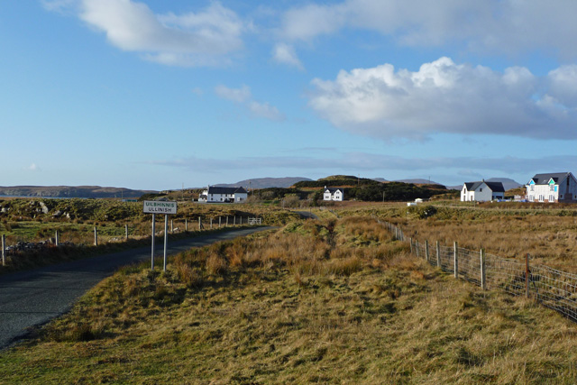 Ullinish Entering the settlement of Ullinish from the east.